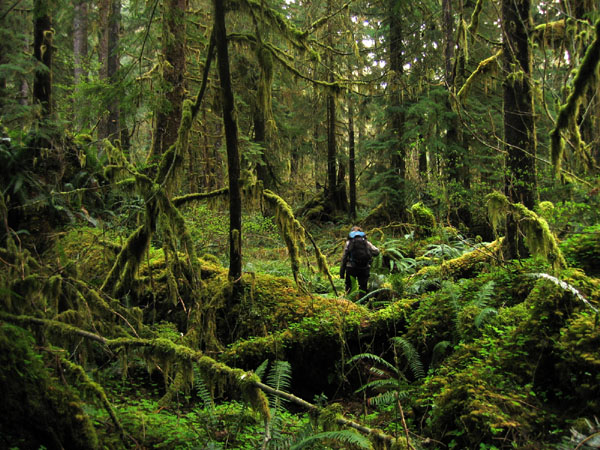 Hiker in the Queets rain forest on the Olympic Peninsula, Washington, USA